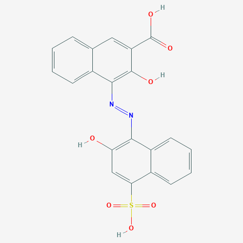 Diagram showing 2D chemical structure of calconcarboxylic acid